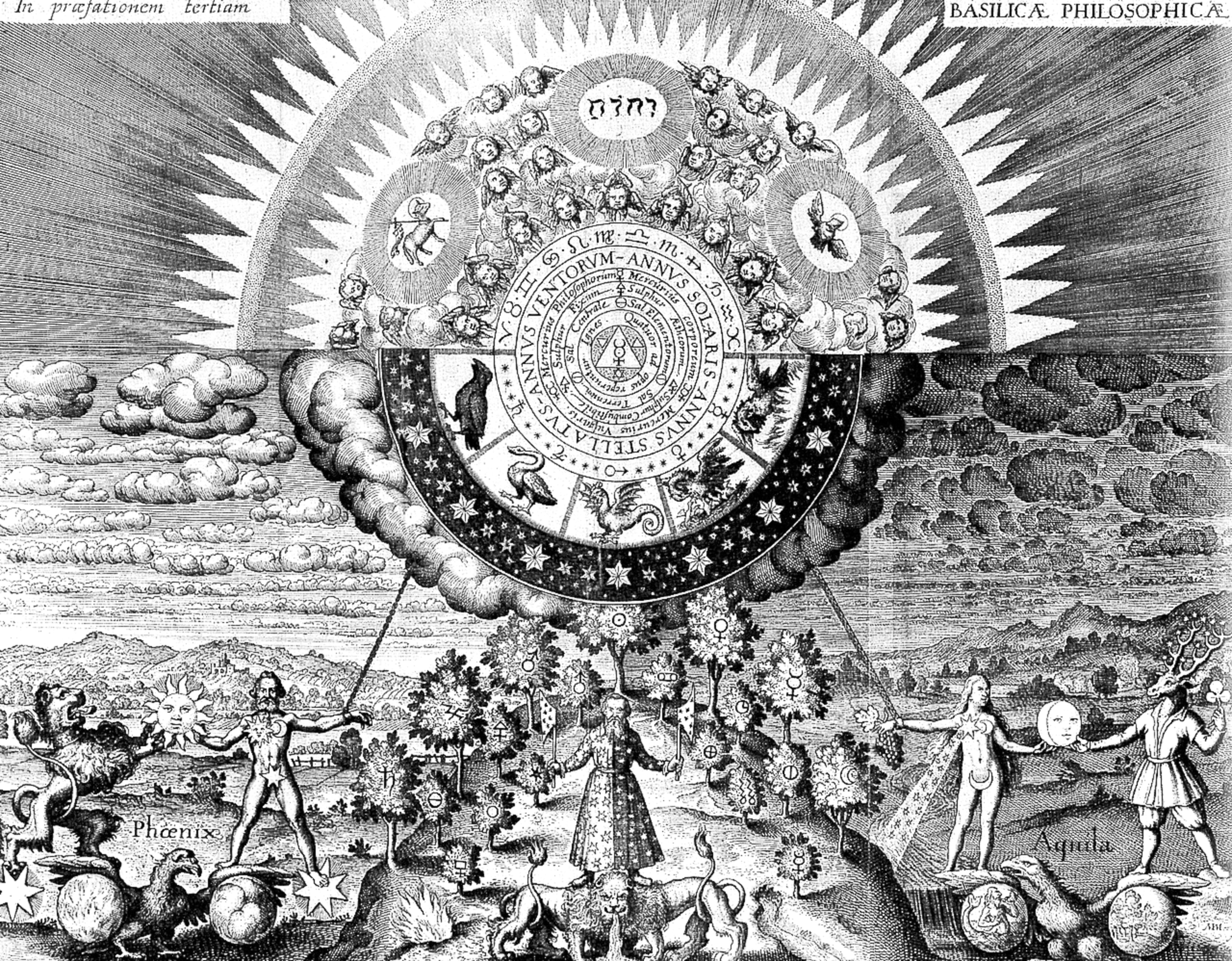 Alchemical illustration in the "Basilica Philosophica" section of Opus Medico-Chymicum, page 273